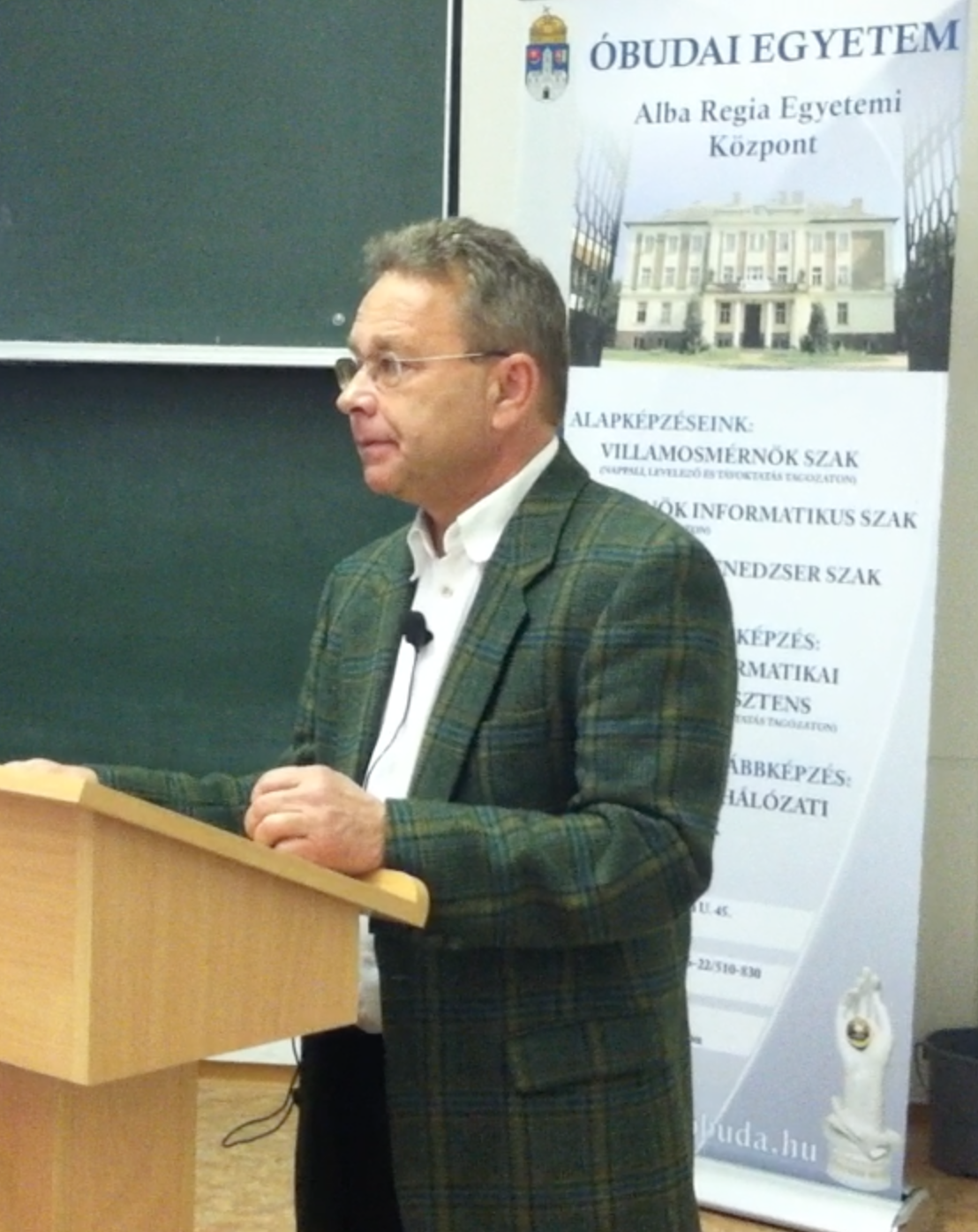 Andras Lakos at the 18th National Conference of Skeptics